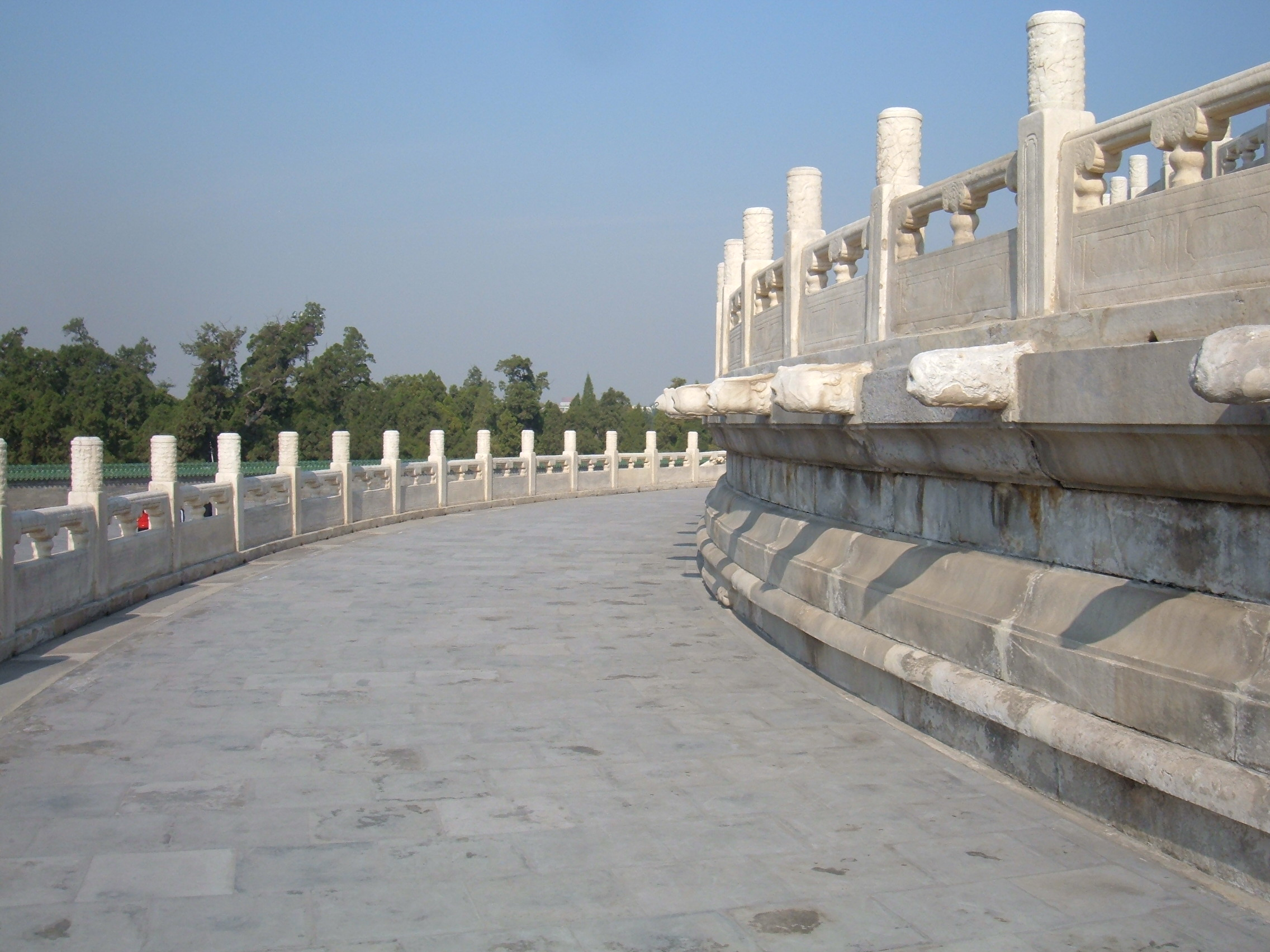 The circular mount of the Temple of Prayer for Good Harvests in Temple of Heaven Park in Beijing, PRC.